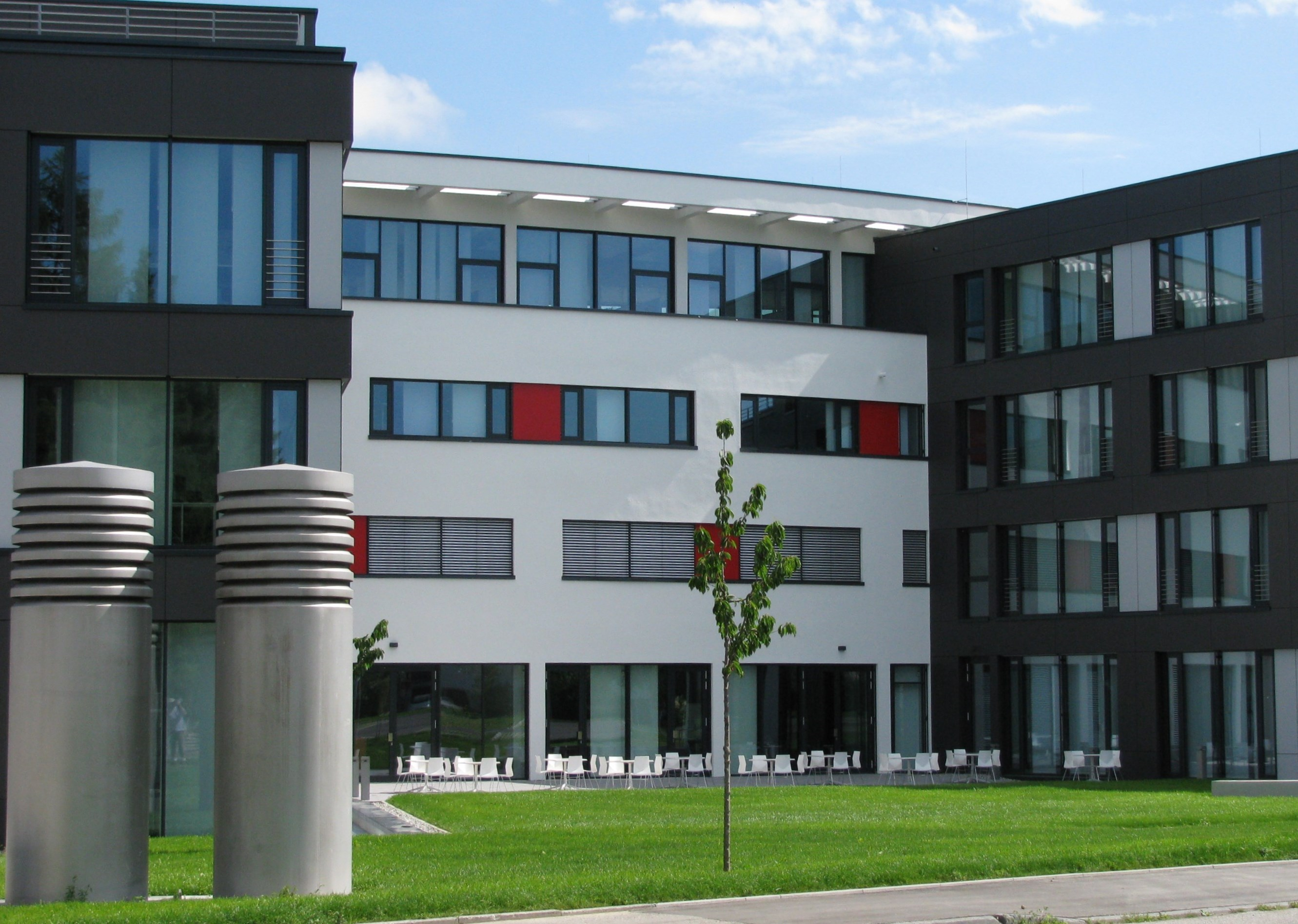 Germany - Baden-Württemberg - Bodeseekreis - Tettnang: AVIRA headquarter